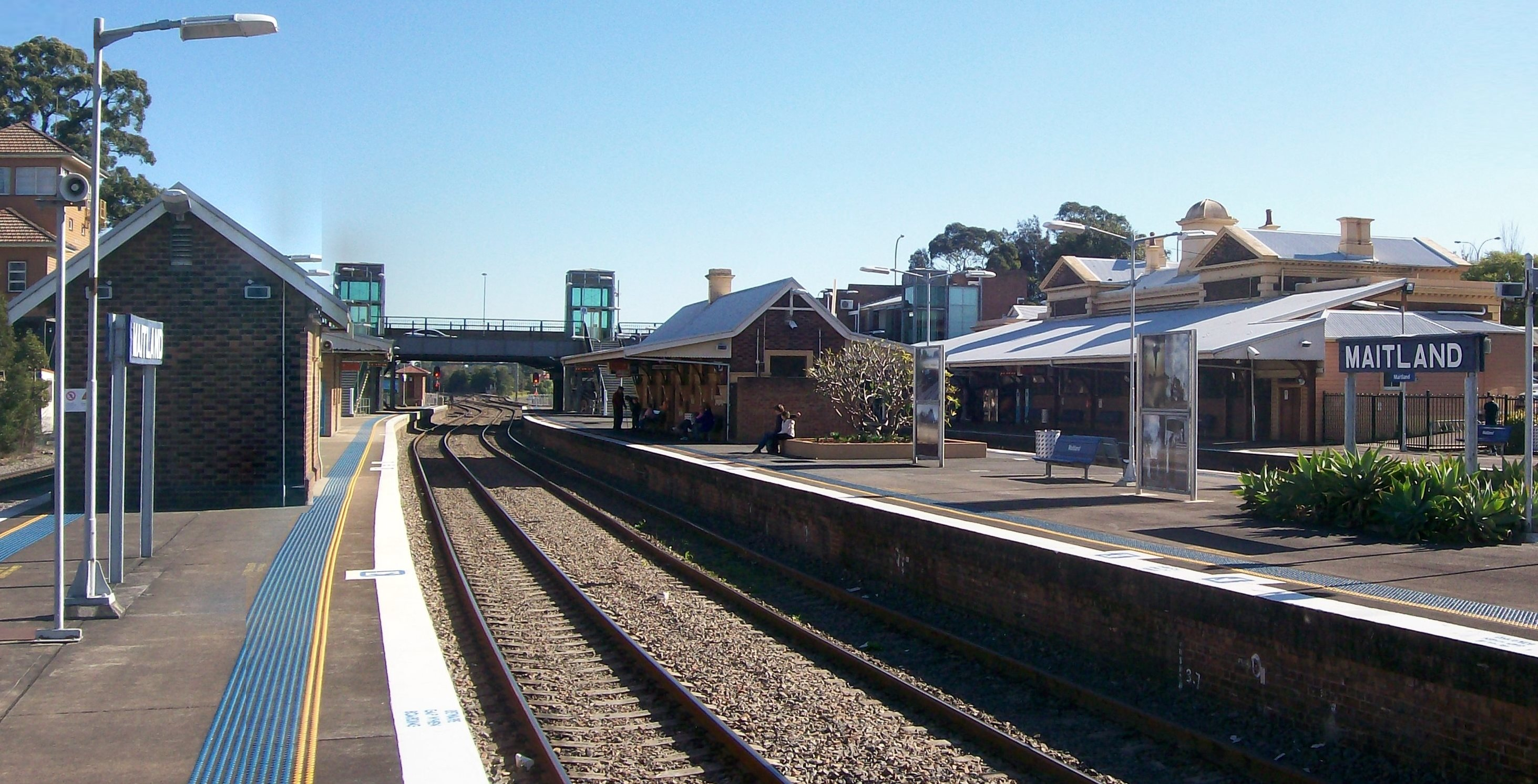 Maitland railway station platforms